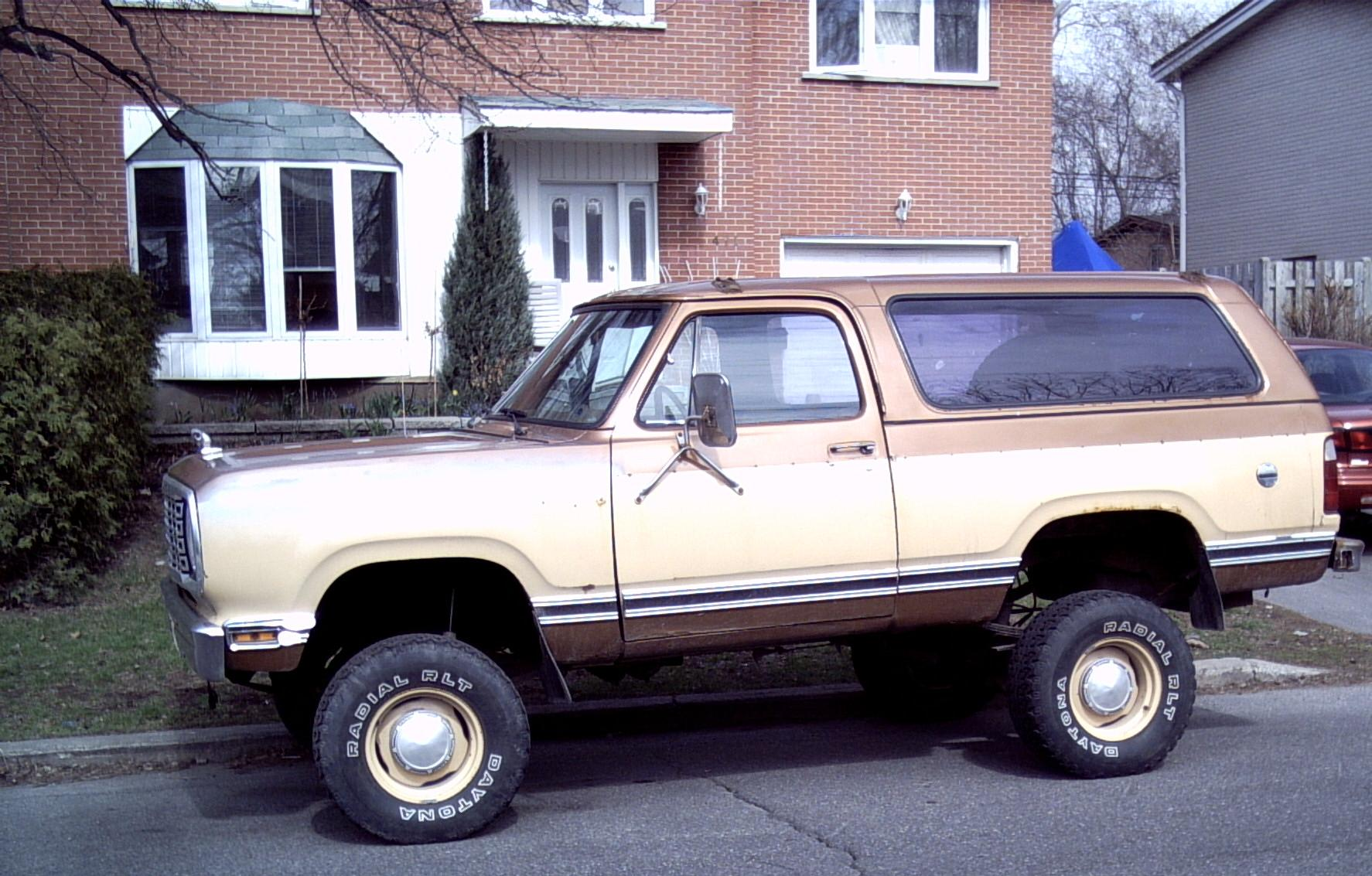 First generation Dodge Ramcharger, equipped with an aftermarket lift kit.